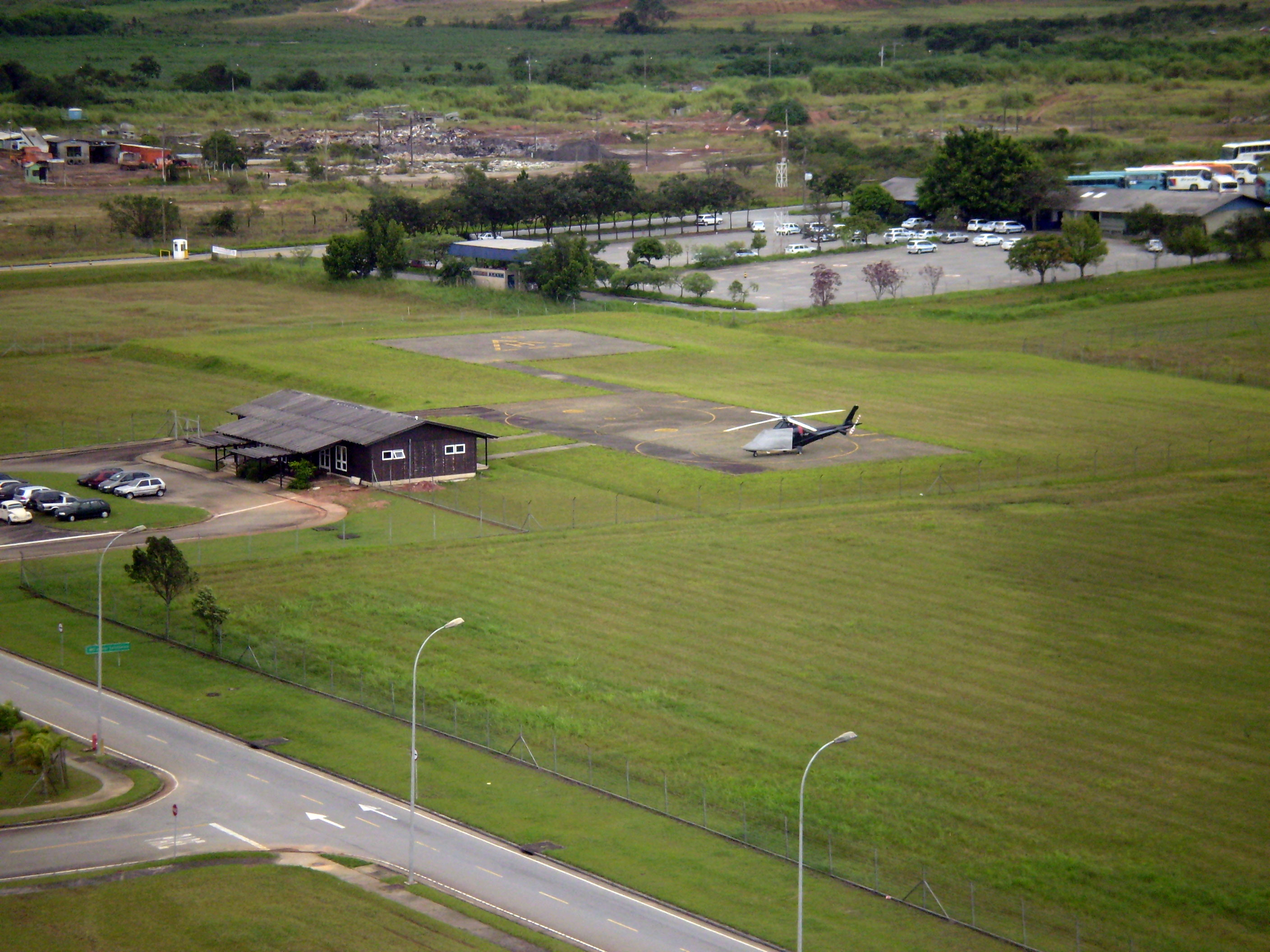 Heliport of São Paulo/Guarulhos International Airport